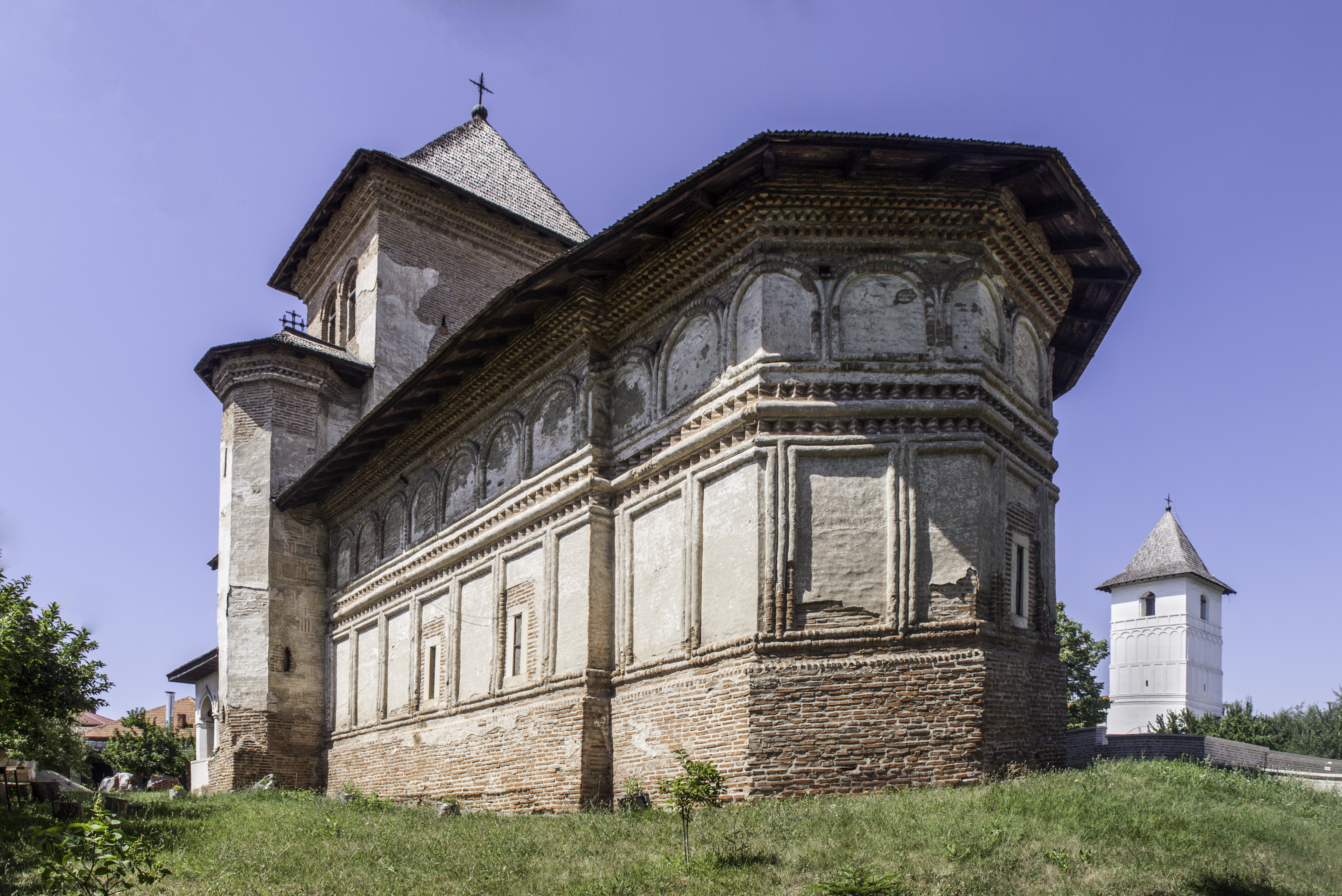 Strehaia Monastery, Mehedinți county, Romania: the church, 17th century.